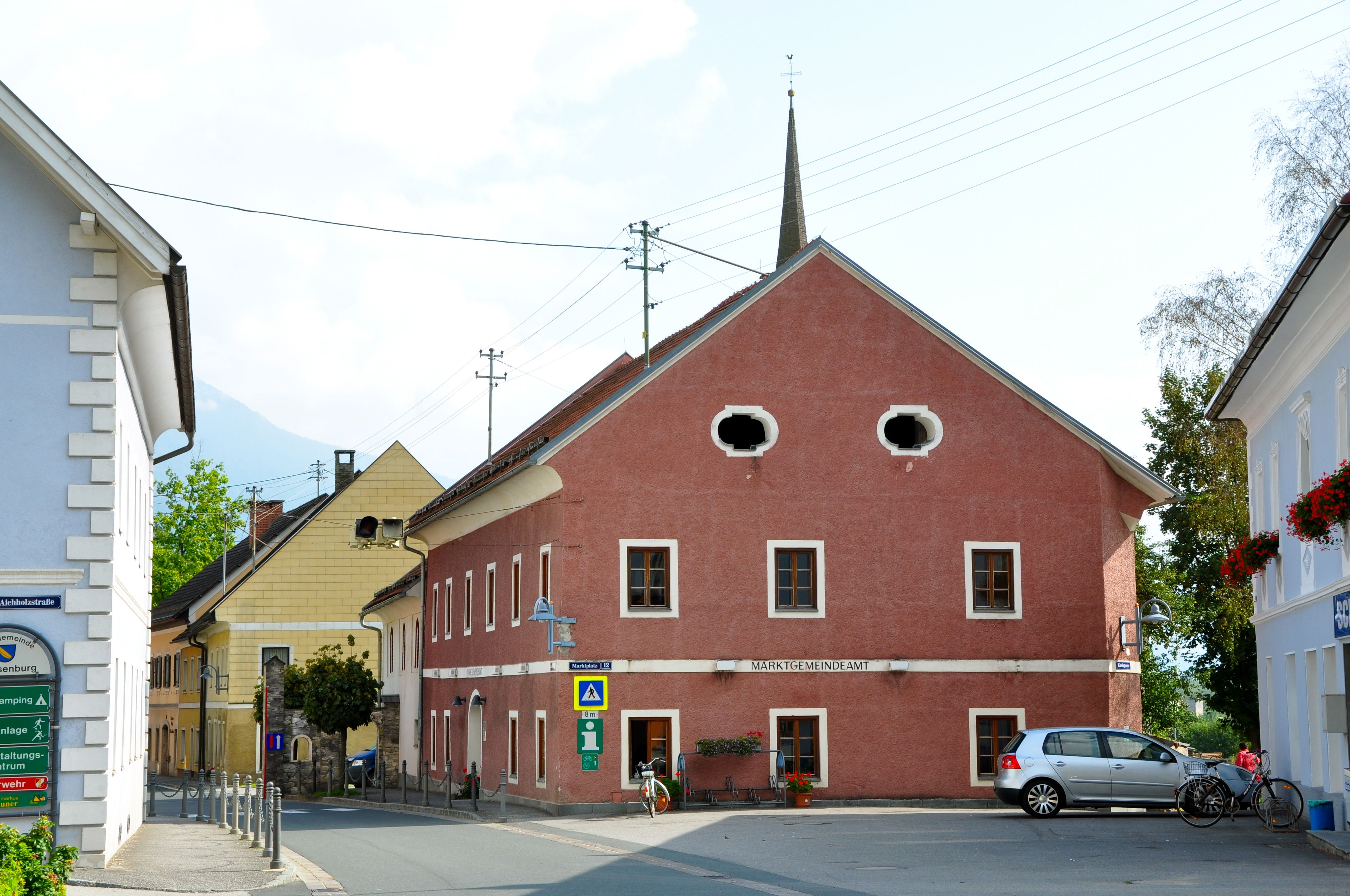 Municipal hall on Marktplatz #12 in Sachsenburg, municipality Sachsenburg, district Spittal an der Drau, Carinthia, Austria